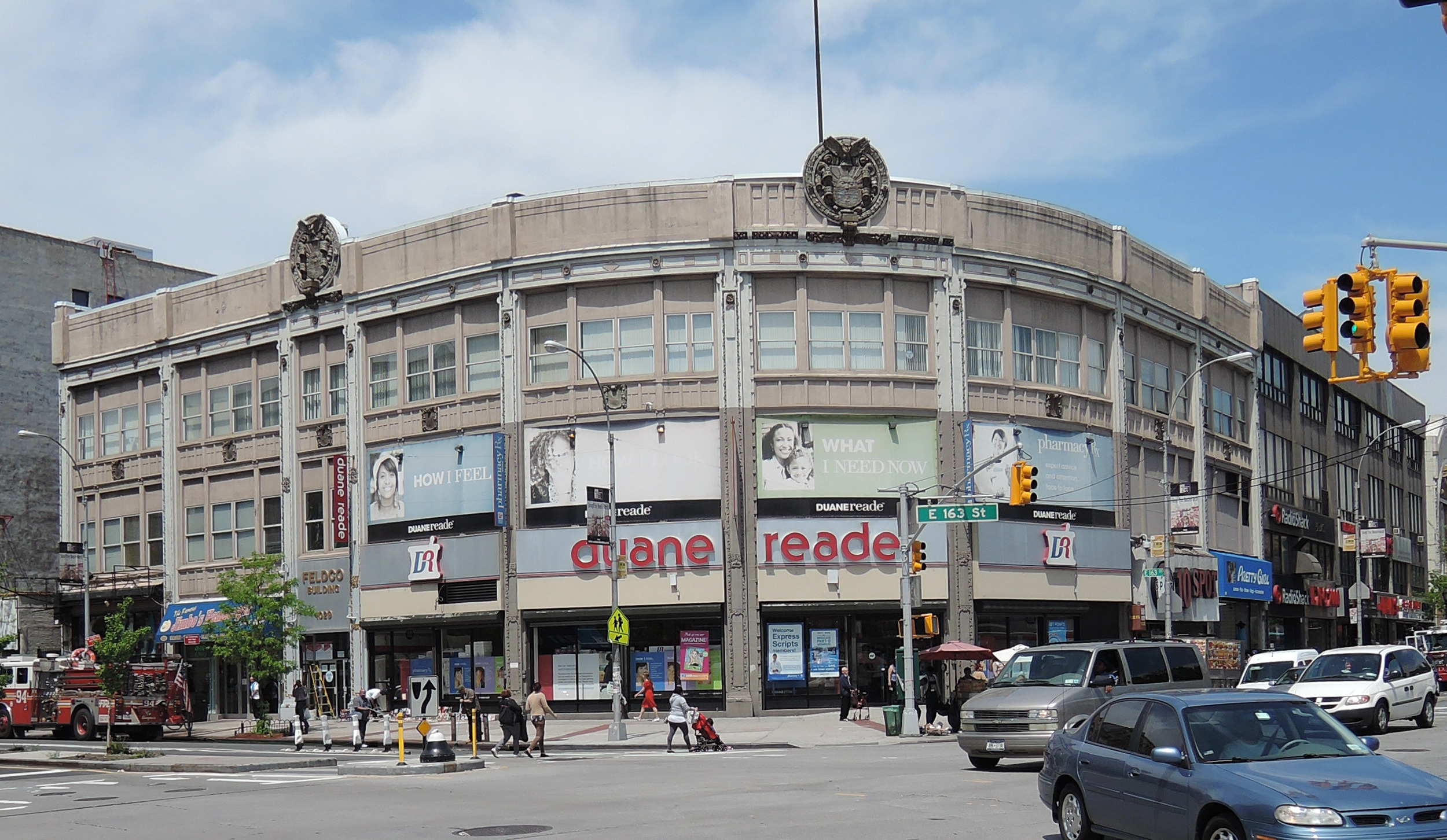 Looking north from Hunts Point Avenue at retail building on a mostly sunny midday.